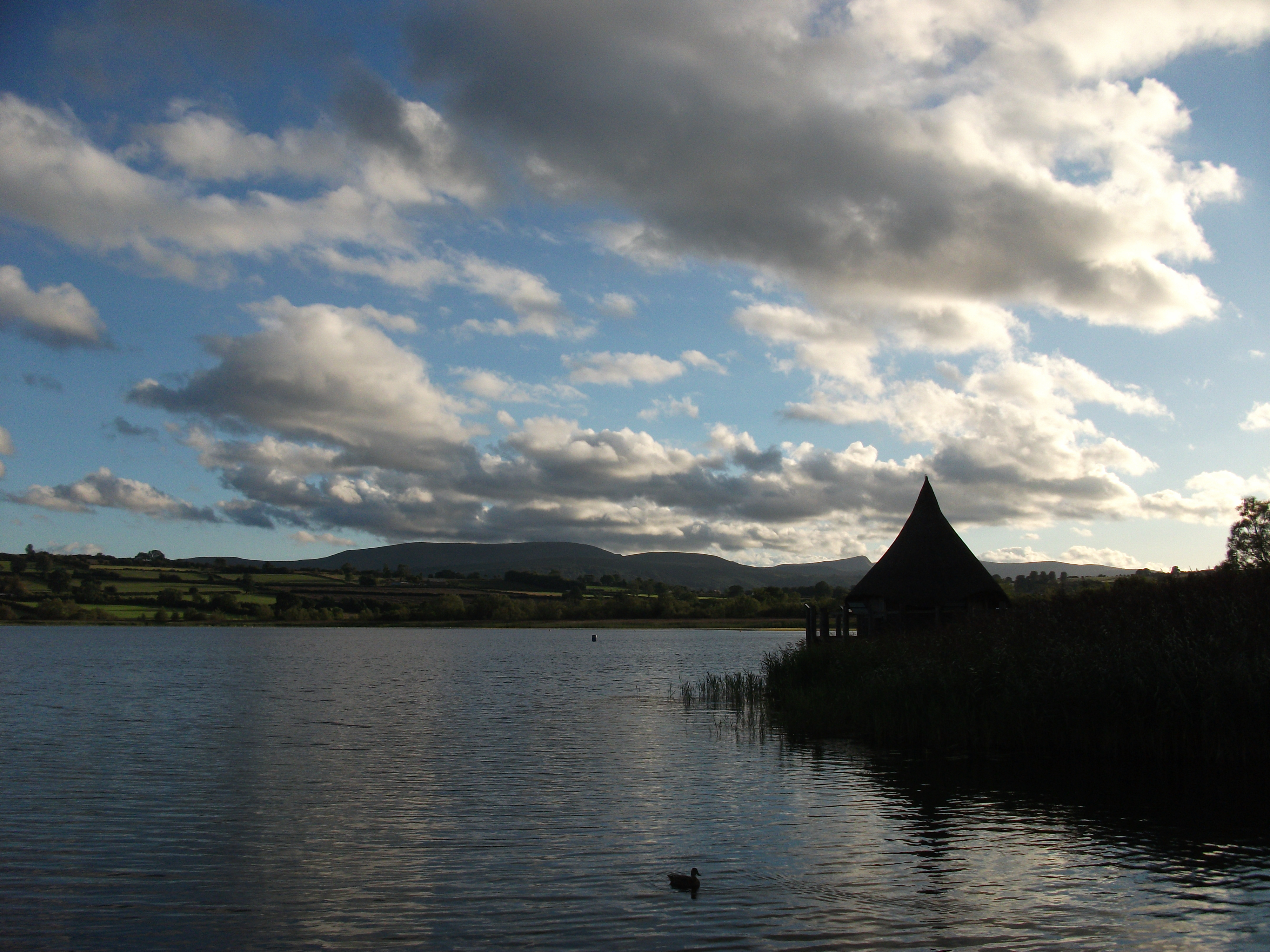 Llangorse Lake in the Brecon Beacons, Wales